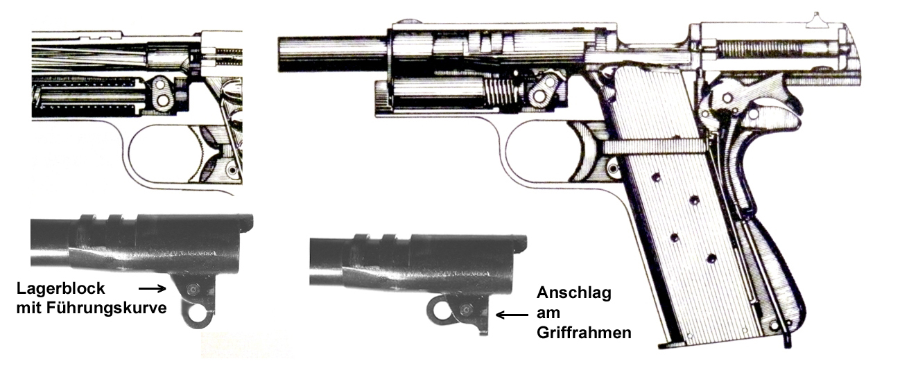 Colt M11 Verriegelung